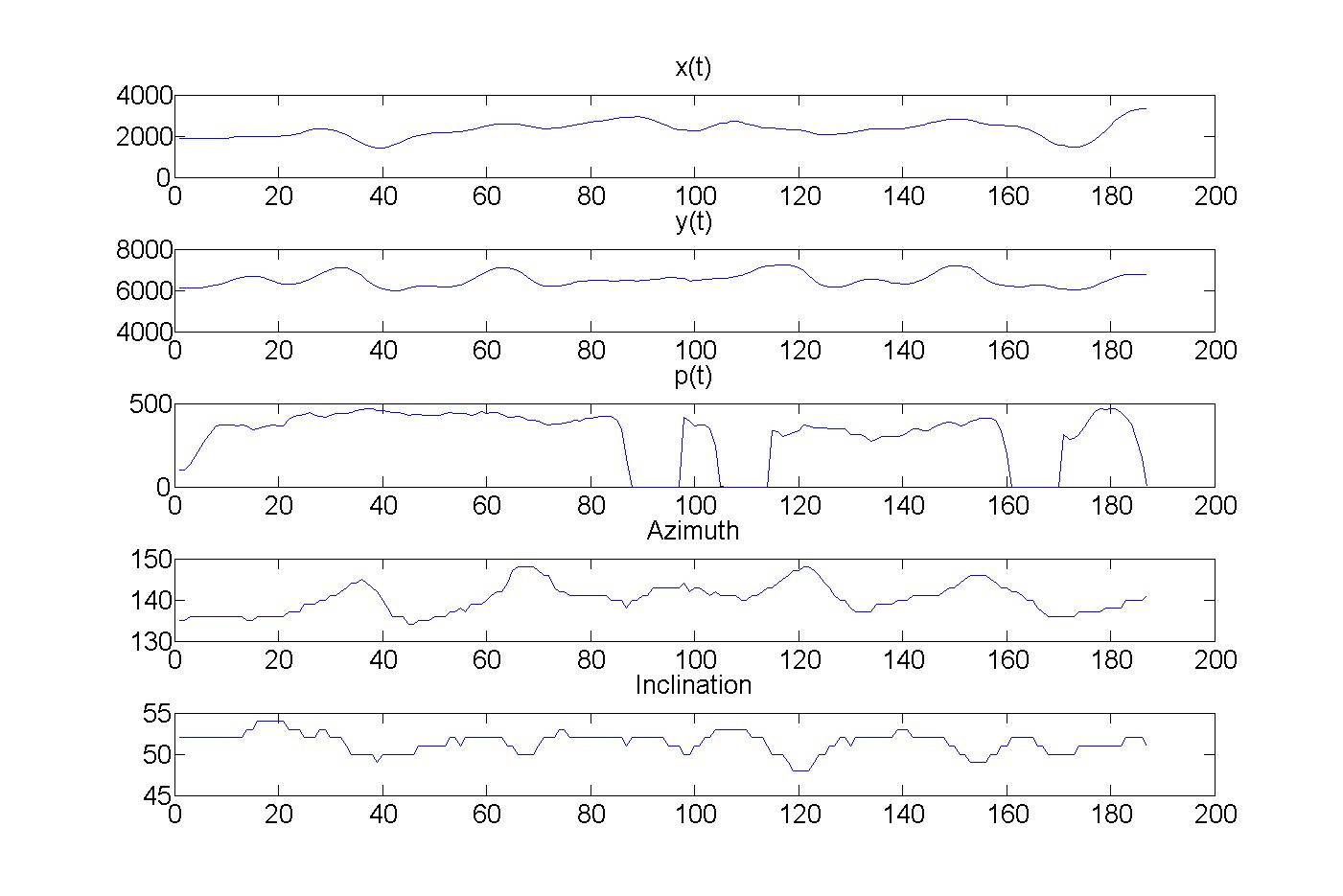 pressure,X, Y , inclination and azimuth of a signature